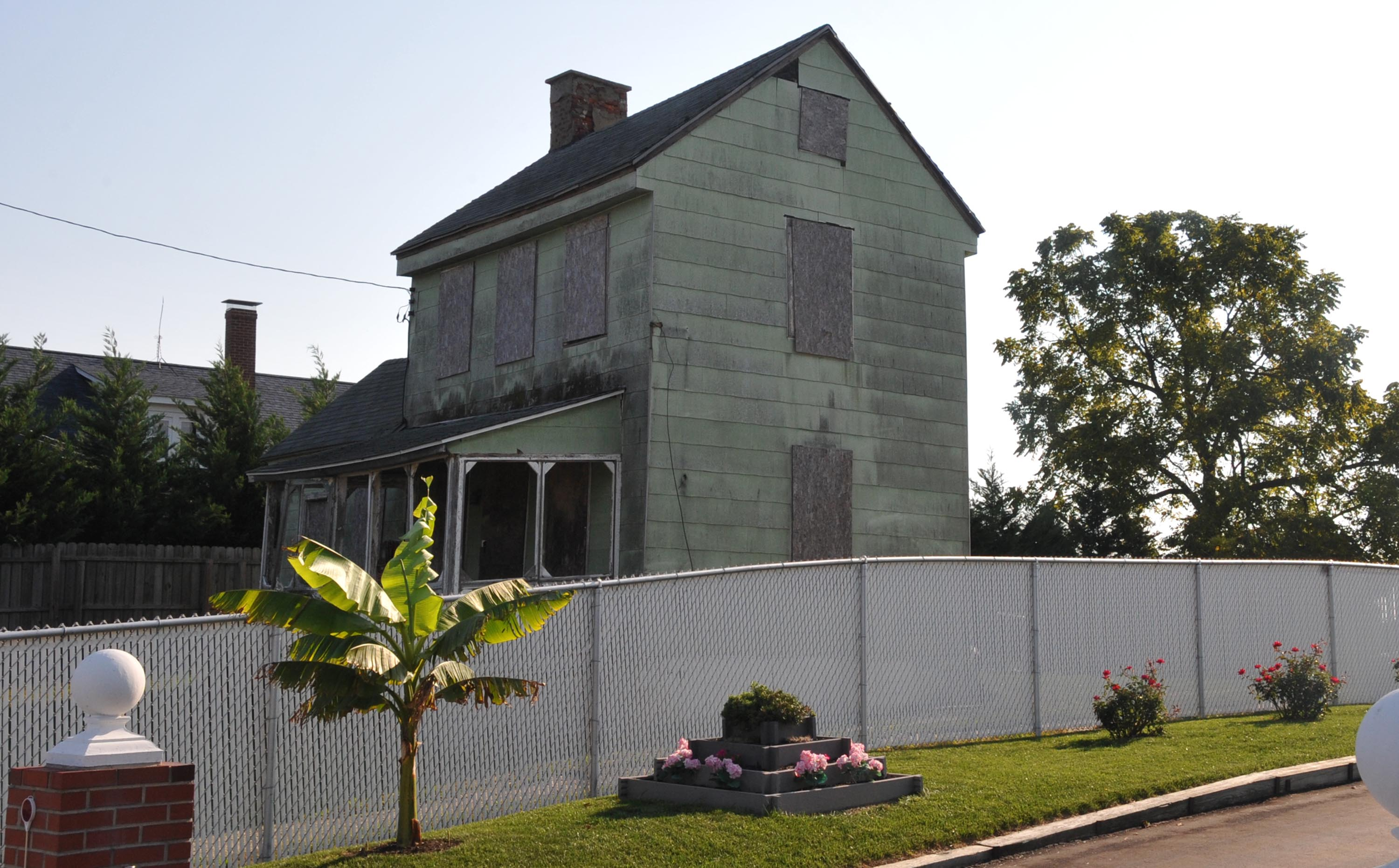 Reed House LOCATED OVERLOOKING THE LEIPSIC RIVER; BUILT FIRST QUARTER OF 19TH CENTURY; PROMINENT IN 1920’S AS A RUM-RUNNERS DESTINATION; CURRENTLY BOARDED UP AS THE OWNER, A CAPTAIN WRIGHT, HAS DIED